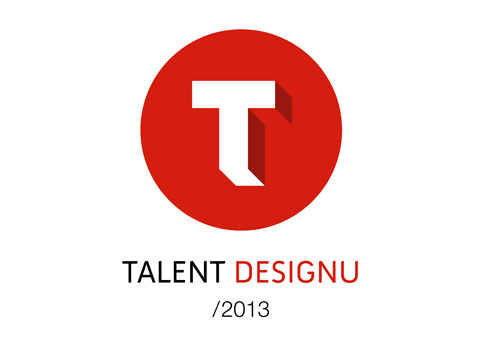 Logo soutěže